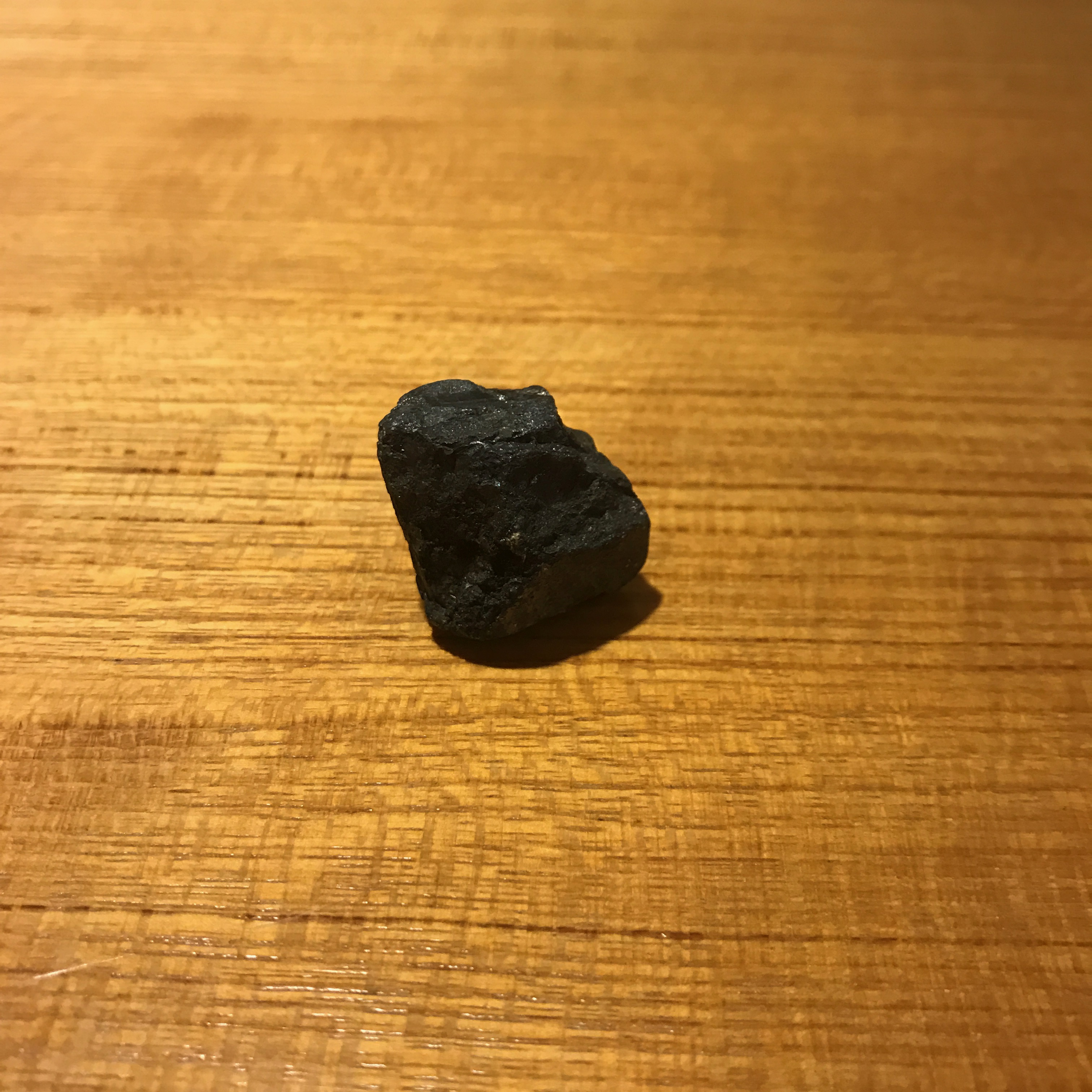 Uraninite (almost 3cm)